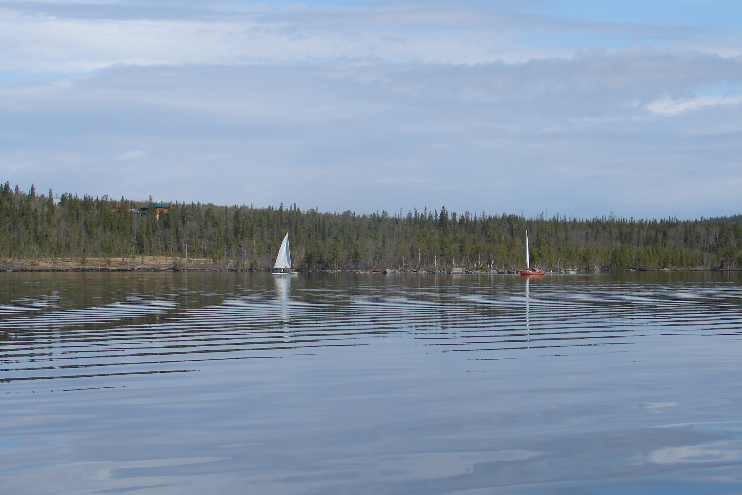 Lake Kildinskoe